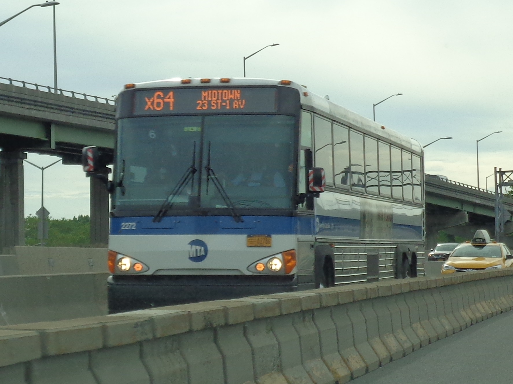 A Manhattan-bound X64 express bus on the Long Island Expressway in Queens, New York City.